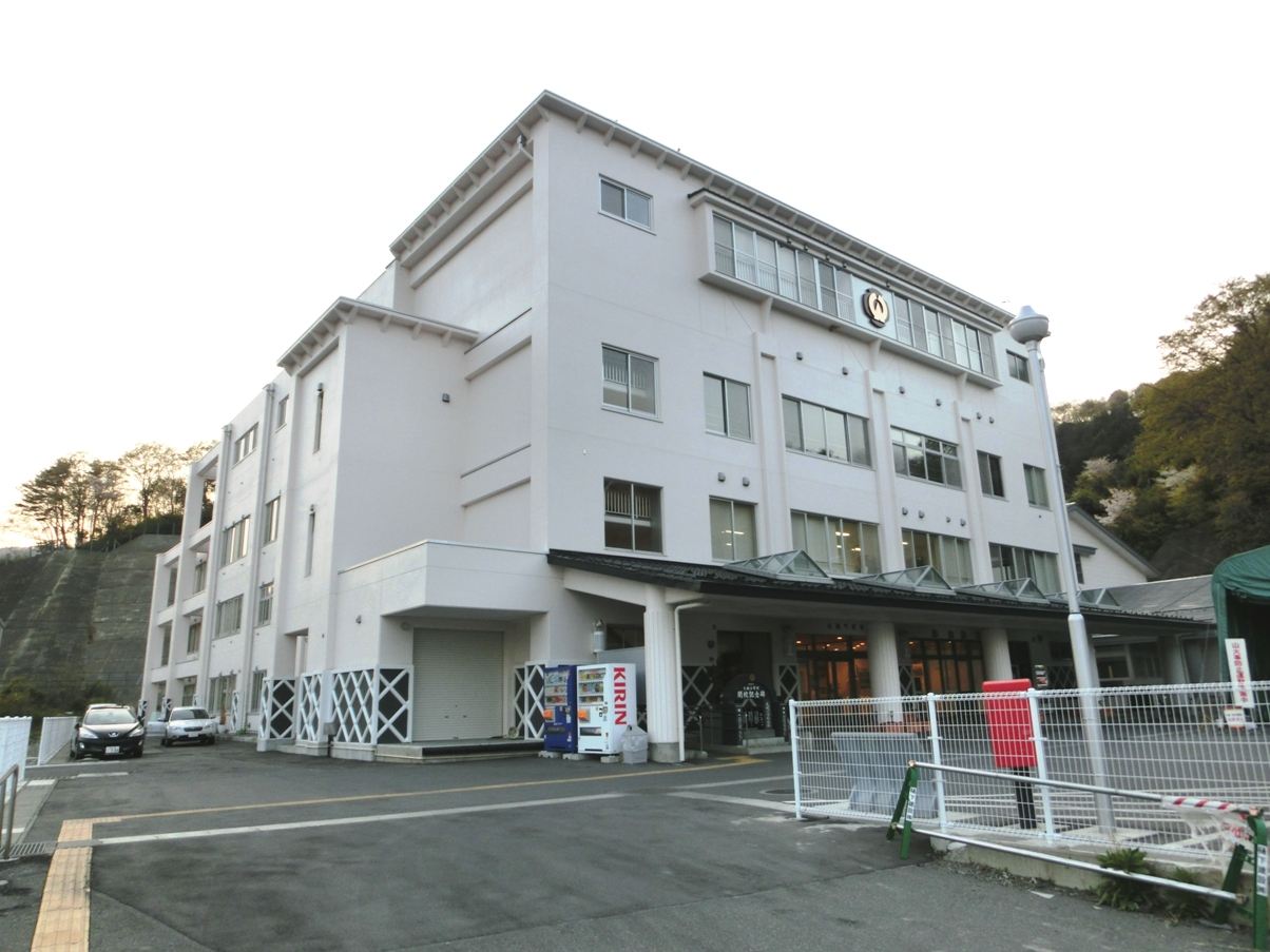 New Town Hall building in Ōtsuchi, Iwate, Japan. It was Originally used for Ōtsuchi elementary school building. But the building had been damaged by fire which caused by earthquake, and the school has transferred to temporary building which built in inland. The building was restored afterward, used for City Hall building from 6 August 2012.